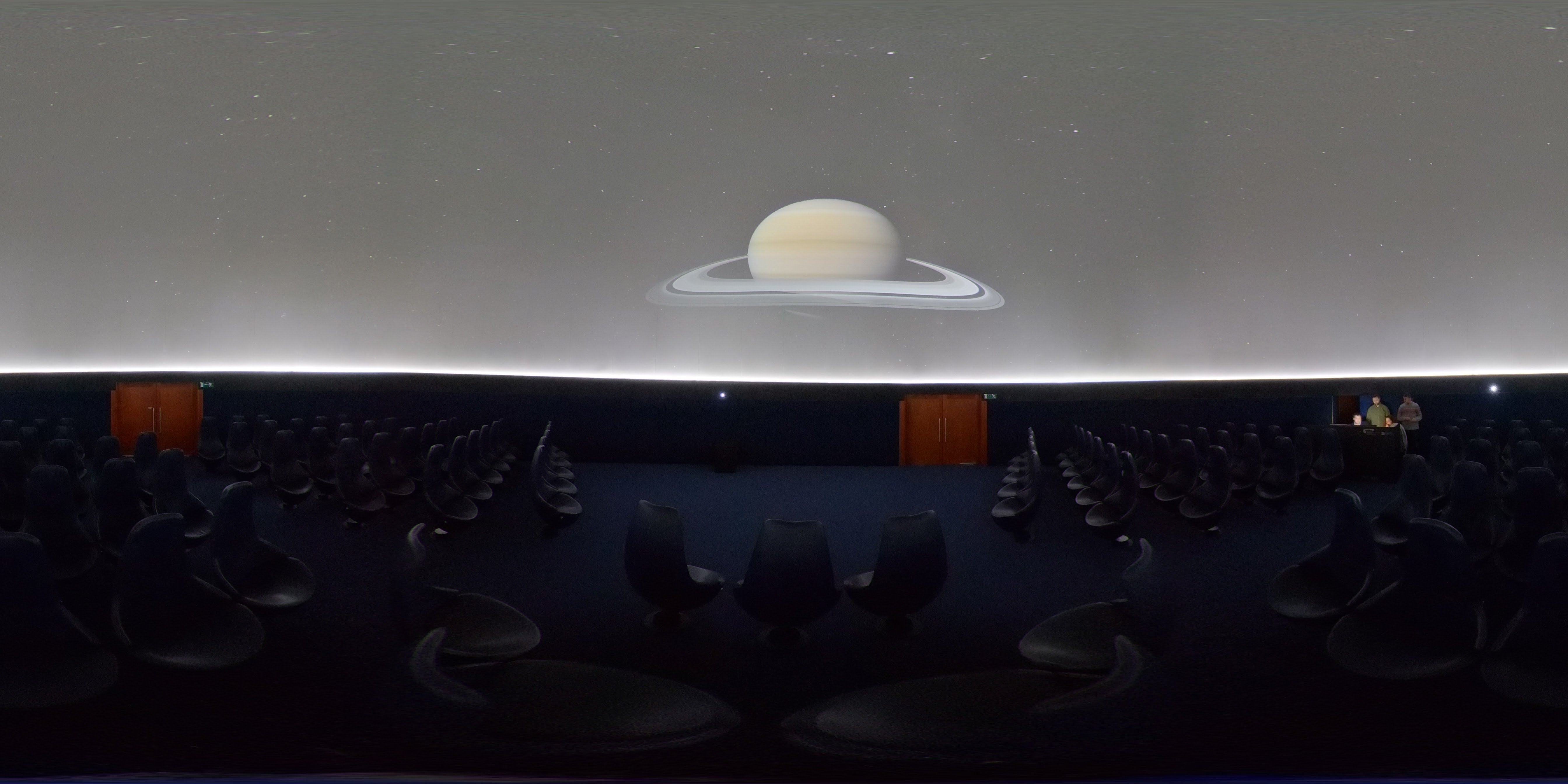 360 degree interior view of the Porto Planetarium Dome. This photo also includes a simulation of the sky observed from Saturn's orbit.